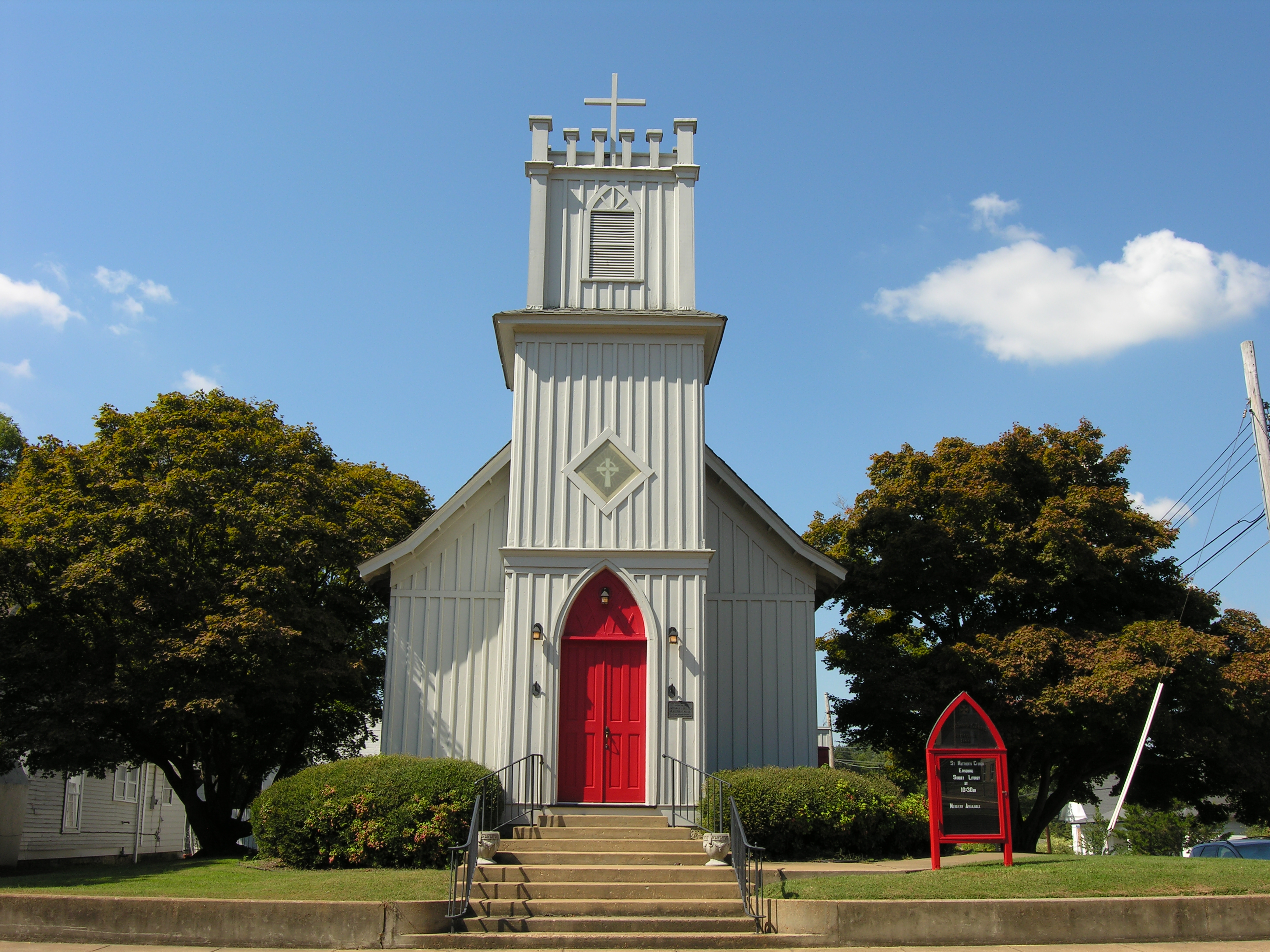 St. Matthew's Episcopal Church